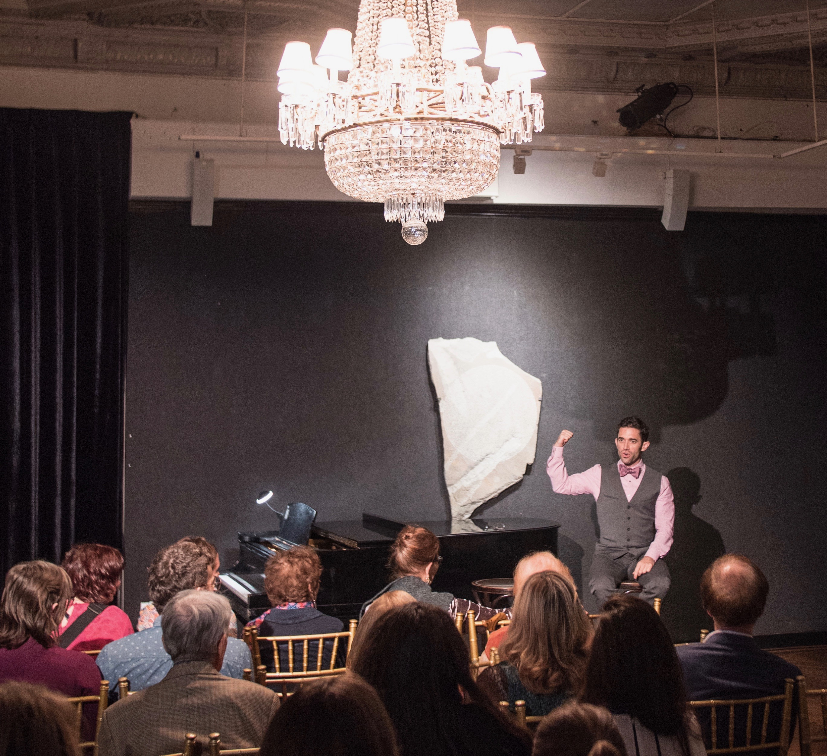 Scott Joiner discusses his work in opera at the National Arts Club (Photo by Jonathan Levin)